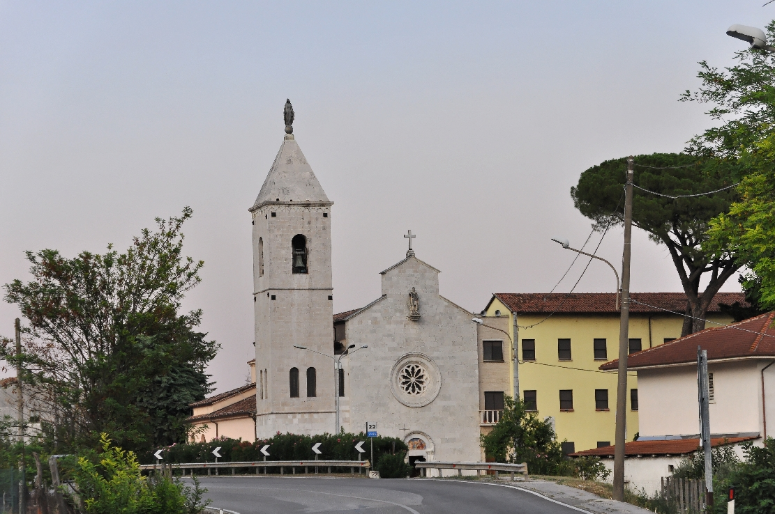 Venafro 2012 Dieses Foto entstand in Zusammenarbeit mit Stadtbesichtigungen.de Die Seiten Stadtbesichtigungen.de, der dazugehörige Reise Blog sowie die Facebookseite: Stadtbesichtigungen Rom dürfen dieses Bild für Ihre Veröffentlichungen ohne den Hinweis auf Wikipedia, Commons bzw der Lizenz verwenden. Die Verantwortlichen habe von mir (Ra Boe) die Originaldaten zur freien Verfügung übermittelt bekommen. Foro Appio Mansio Hotel